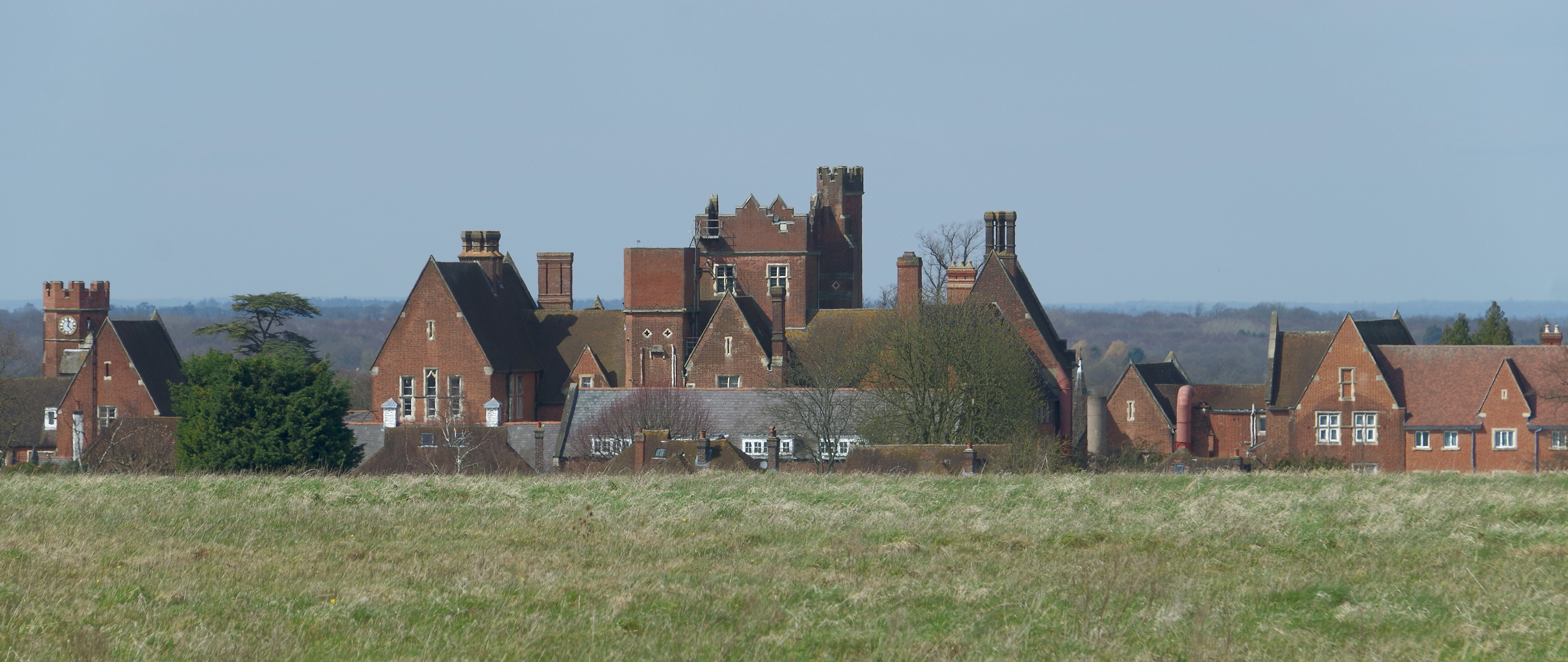 Epsom College, seen from Epsom Downs railway station.